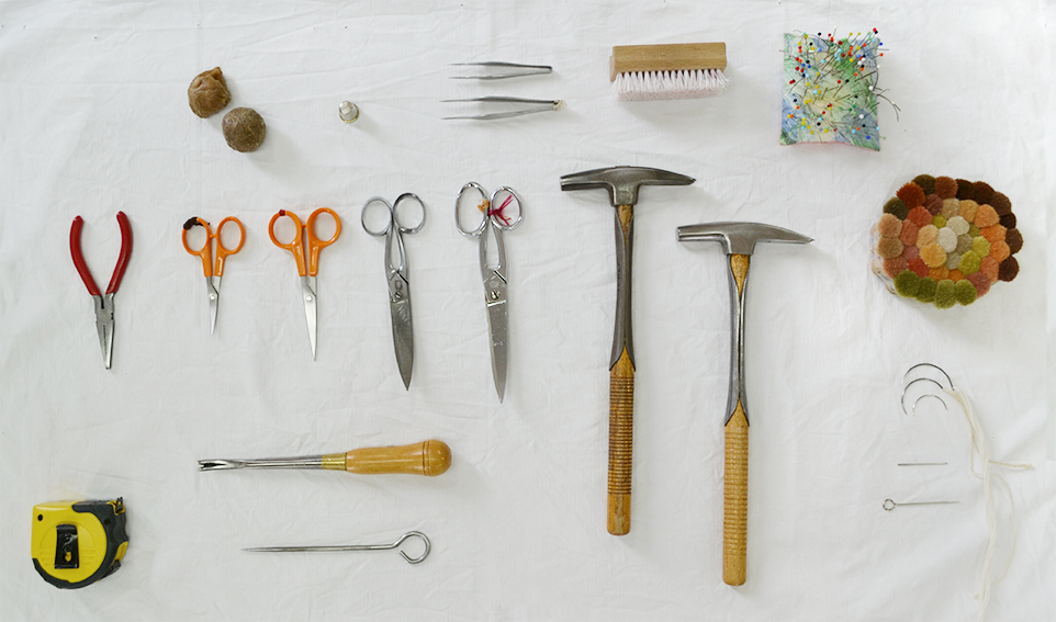 This media was taken during the workshop of the 21 September 2018 at the Mobilier national, supported by Wikimédia France. English | français | +/−